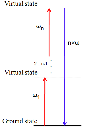 Quantic description of n-th harmonic generation